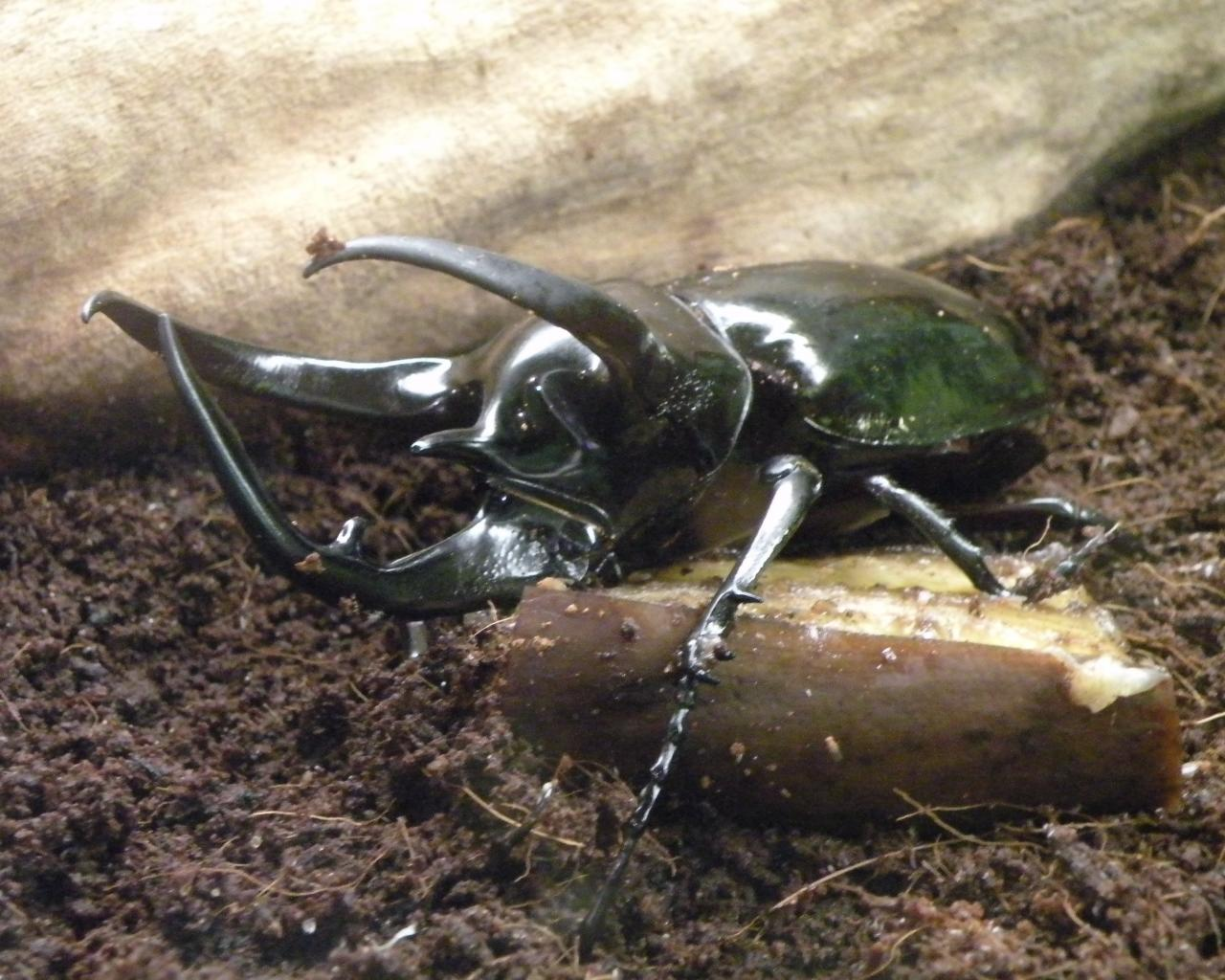 Atlas beetle (Chalcosoma atlas) Only the males of these spectacular beetles from Southeast Asia sport the large horns used to battle one another for females. Wikipedia Loves Art at the Houston Museum of Natural Science This photo of item # [1] at the Houston Museum of Natural Science was contributed under the team name "Assignment_Houston_One" as part of the Wikipedia Loves Art project in February 2009. Houston Museum of Natural Science The original photograph on Flickr was taken by Stephaniedancer—please add a comment to the original Flickr page whenever a use has been made on Wikipedia or another project. Project galleries on Flickr: this institution, this team